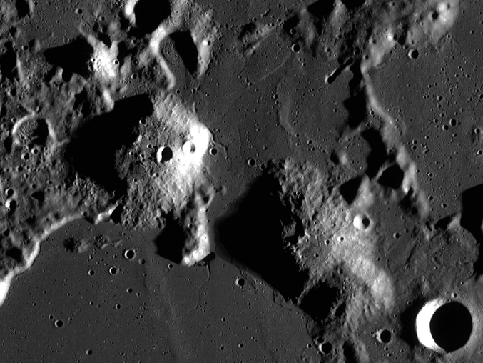 Volcanoes Mons Gruithuisen Gamma (left) and Mons Gruithuisen Delta (right) on the Moon, on the northwestern shore of Mare Imbrium. The smaller mountain in upper left is also interpreted as a volcano (Lena et al., 2013, p. 125-126). Crater in the lower right is Gruithuisen B. Mosaic of photos by Lunar Reconnaissance Orbiter, made with Wide Angle Camera. Width of the image is approximately 80 km, north is up.